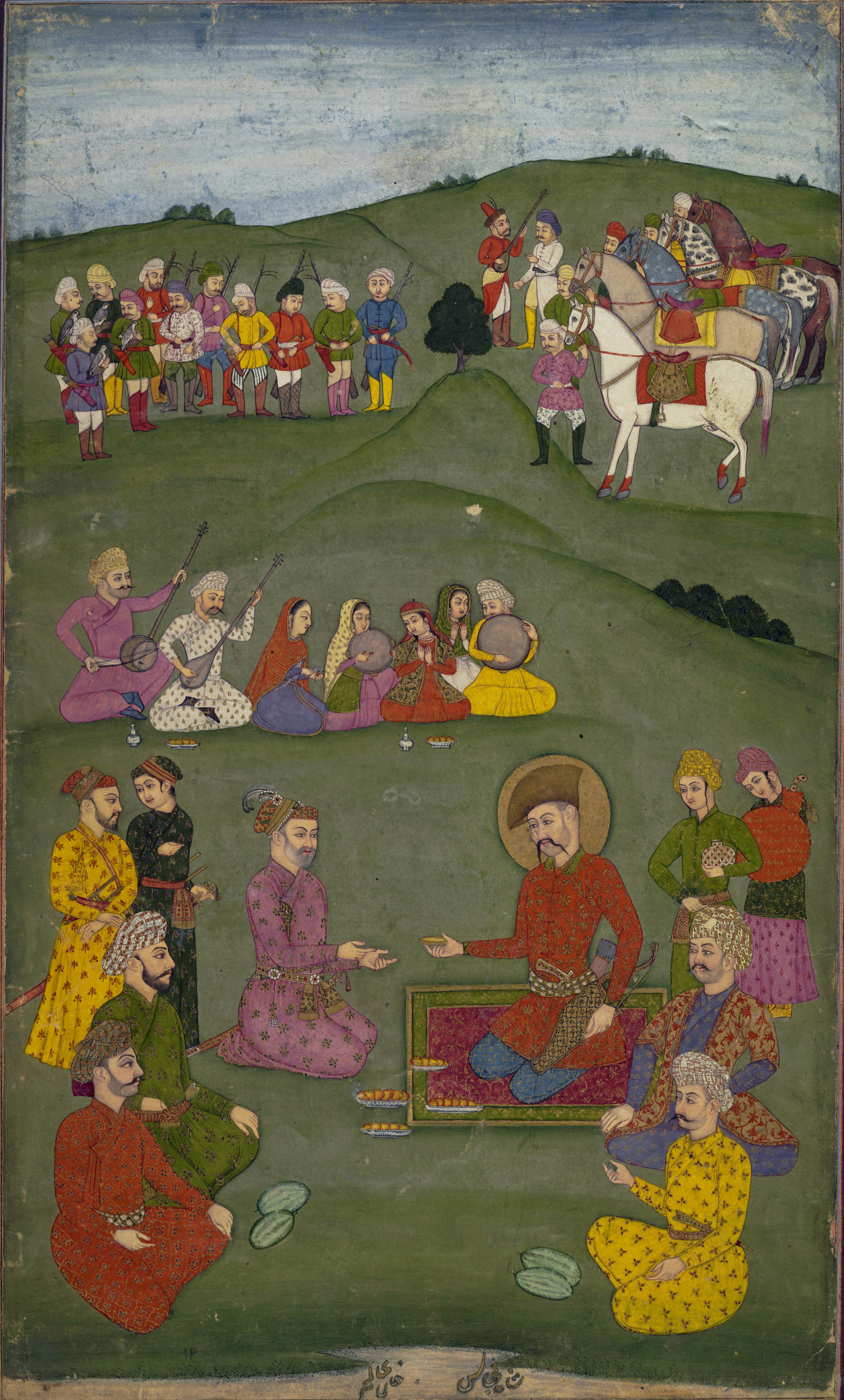 Album Leaf. Court. Shah ʿAbbas I receiving Khan ʿÁlam, ambassador from Jahángír in 1617 AD. Opaque watercolour and gold on paper. See 1974,0617,0.15 for album details.